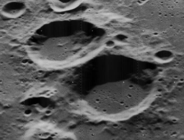 Oblique view of Smith (upper left) and Scobee (lower right), on the far side of the moon, facing west.